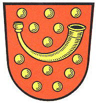 Nordhorn: coat of arms (this file came from wikipedia page Nordhorn)